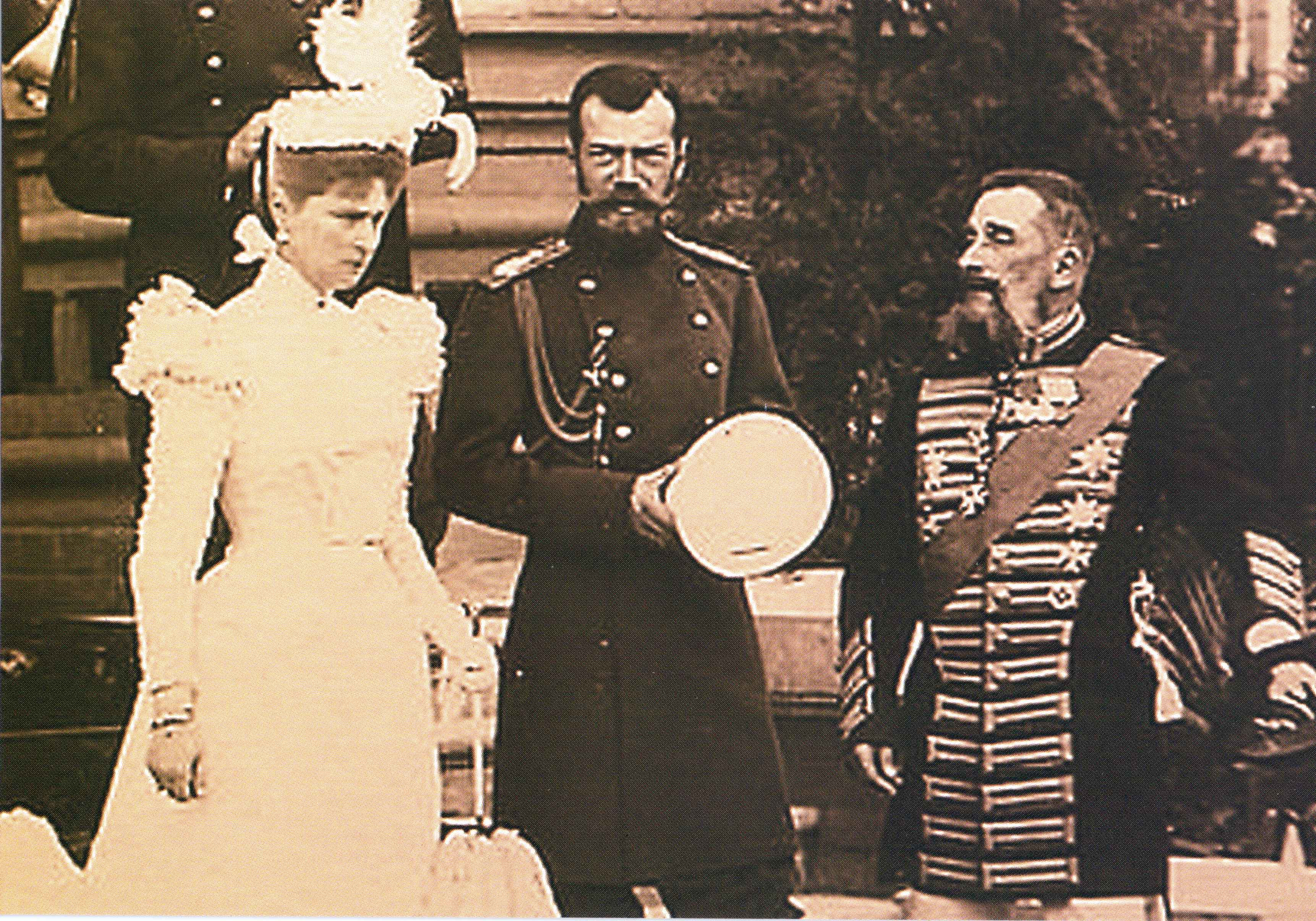 Nicholas II of Russia in Borki. 1900